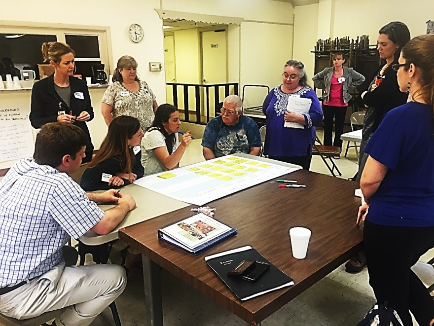 Inviting a variety of stakeholders to public meetings provides opportunities for local community members to create new relationships. Local Foods, Local Places workshops are designed to bring together food experts including farmers, federal officials, elected leaders and community advocates. These relationships are useful in sharing knowledge on funding opportunities and strategies for overcoming barriers to goals. All meetings are public and welcome resident engagement.